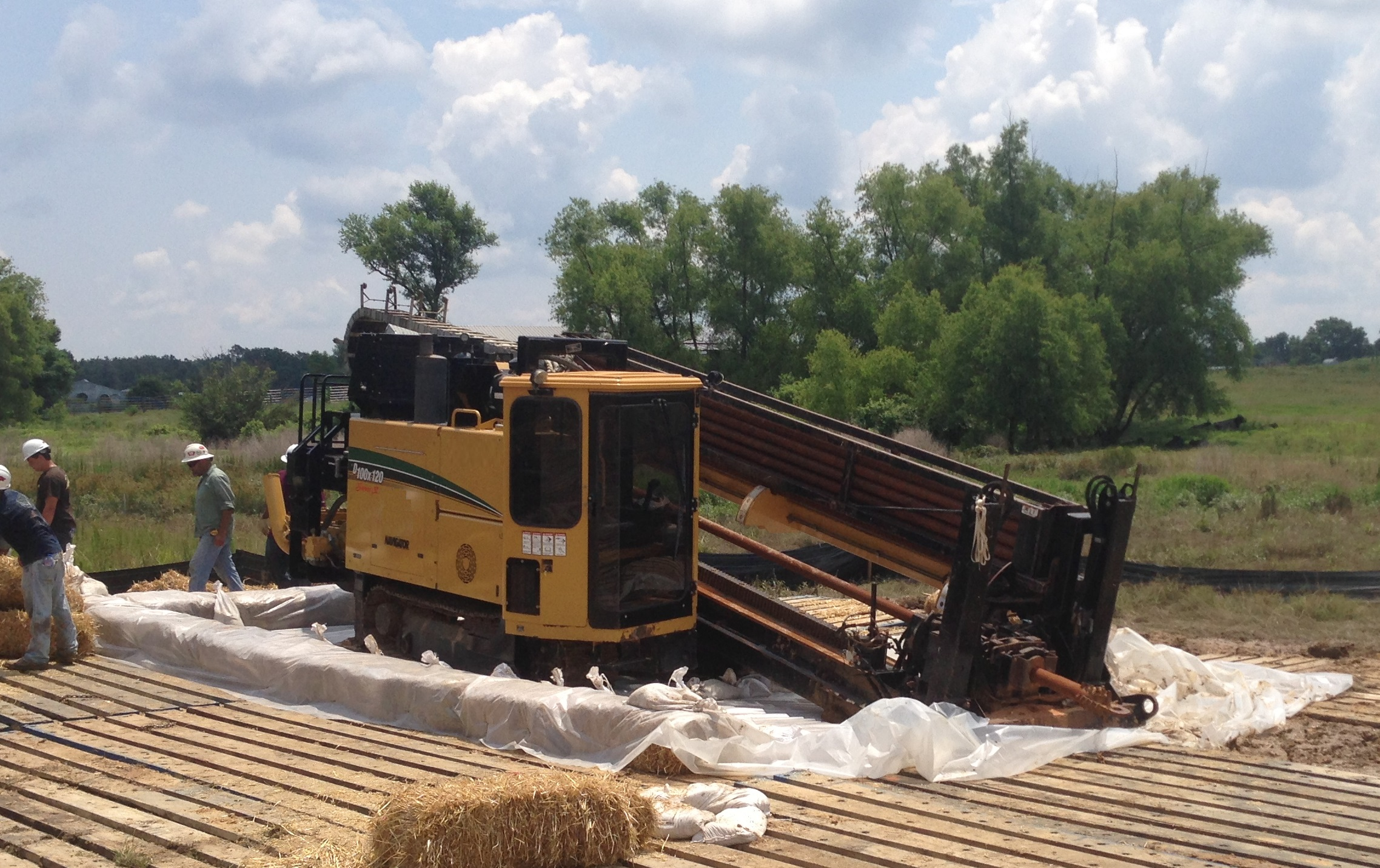 Small Tracked HDD Rig